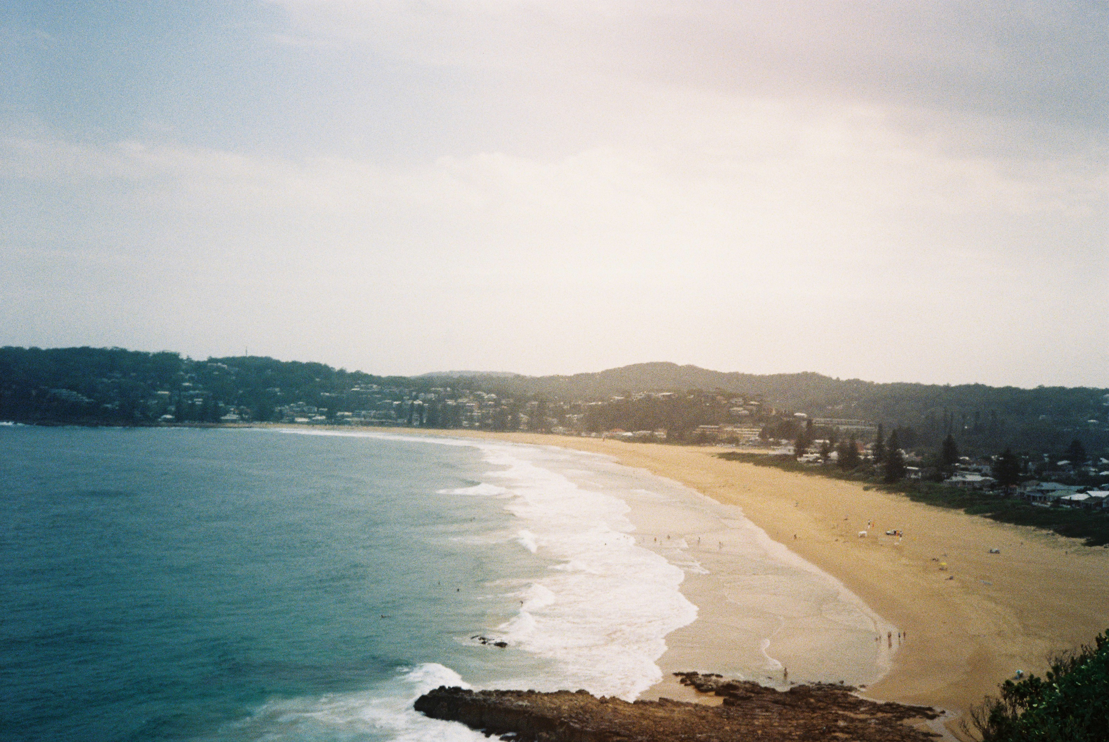 Taken from a rock ledge lookout in North Avoca, this photo depicts the North side of Avoca Beach.